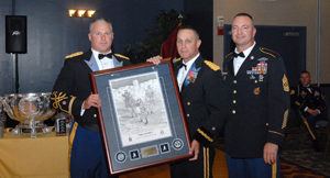 Lt. Col. Robert Ryan, left, and Command Sgt. Maj. Benny Dobbs, right, present Brig. Gen. Harry E. Miller with a 31st Infantry print, battalion crest and coin.